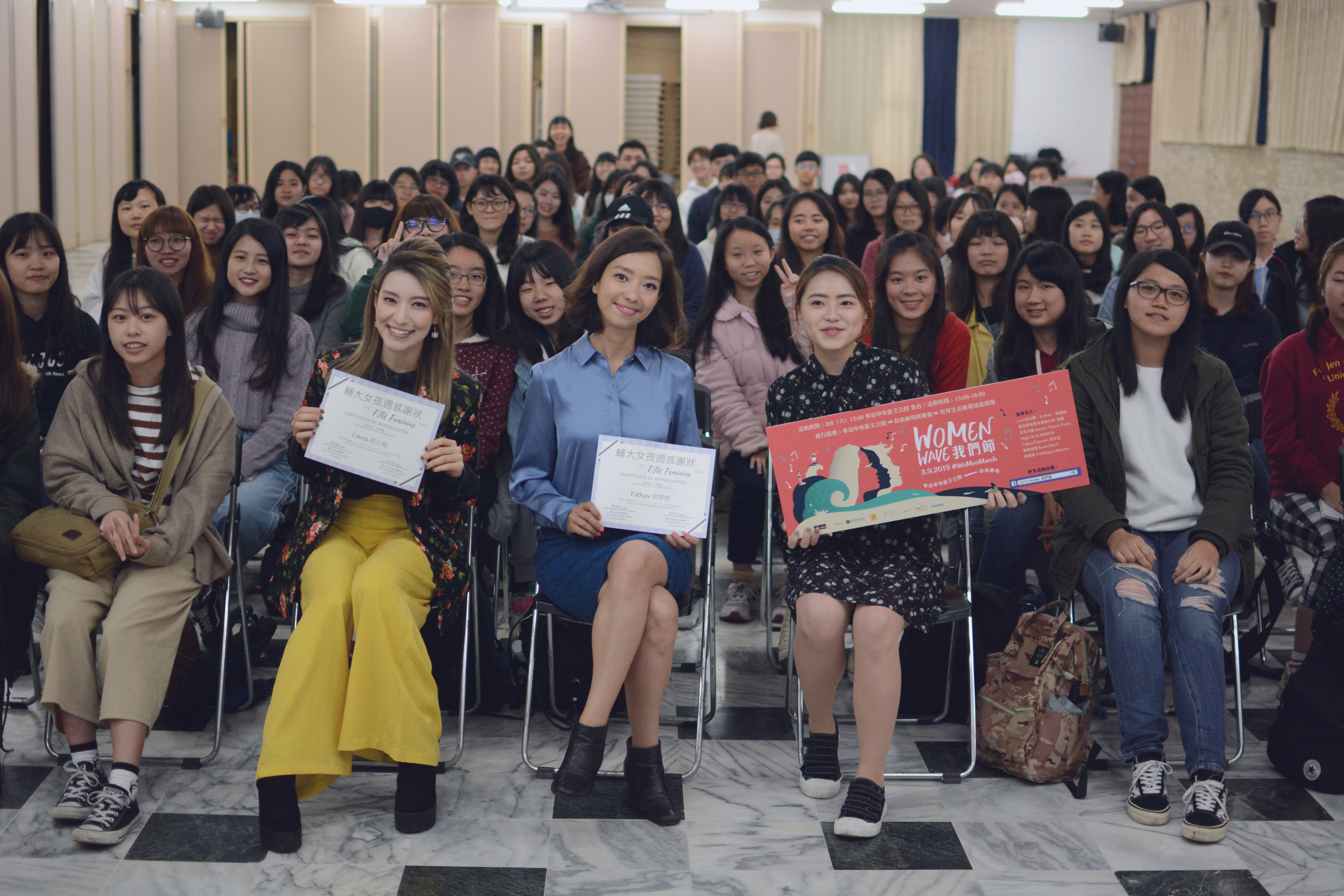 Esther and Lara Veronin at Women's Week at Fu Jen Catholic University in 2019 speaking on feminist history, cultural issues, and personal experiences.